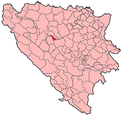 Location of Dobretići municipality in Bosnia and Herzegovina.